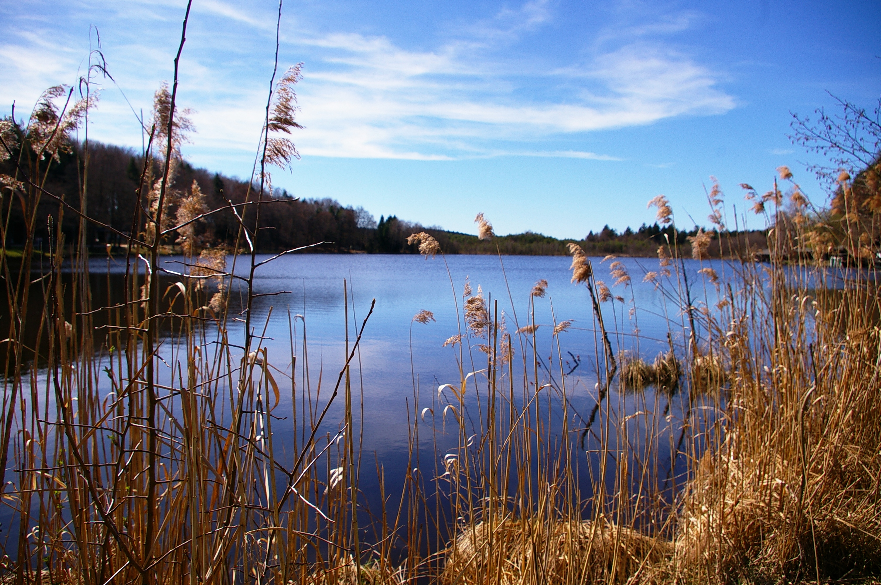 Lake in Upper Austria